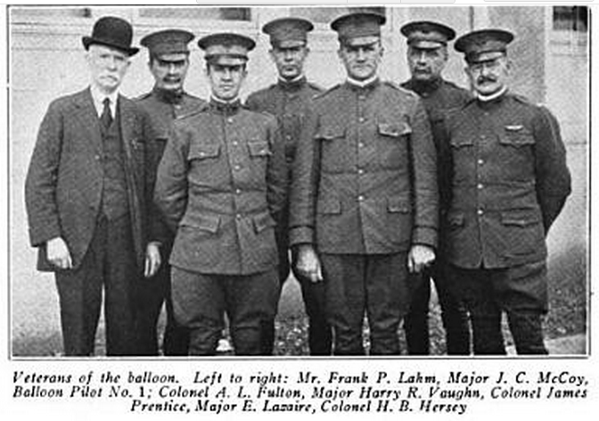 From left to right are: Frank Samuel Lahm, Major James C. McCoy who was the first person to obtain a balloon license, Colonel A. L. Fulton, Major Harry R. Vaughn, Colonel James Prentice, Major R. Lazaire, Colonel Henry B. Hersey.